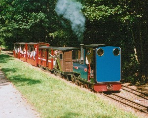 Picture at the Lakedside Loop on Rudyard Lake Steam Railway Author M. Hanson